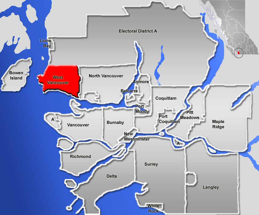 Location of West Vancouver, Greater Vancouver Area, British Columbia